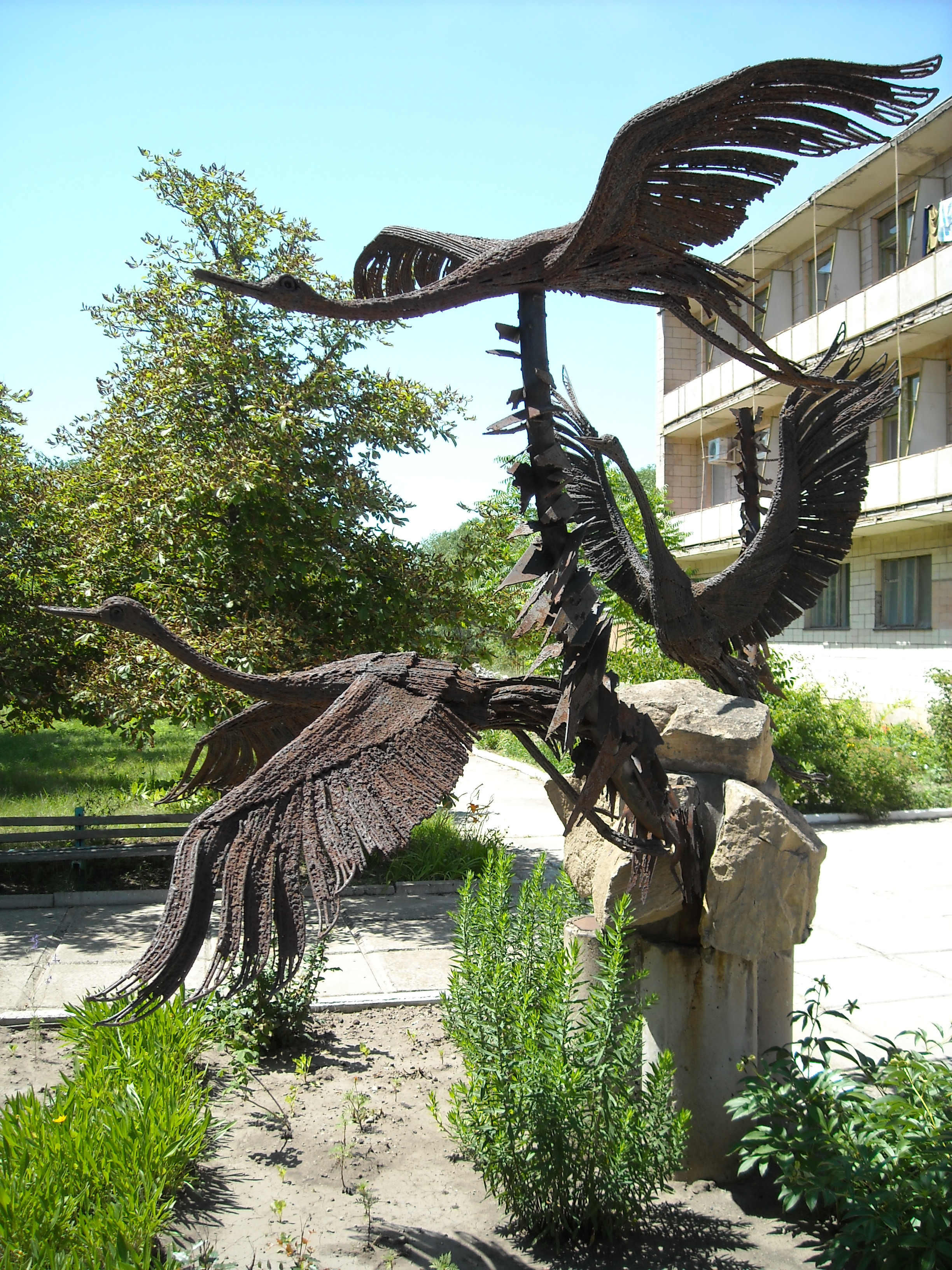 Shchastia sity.Lusansk state. Ukraine